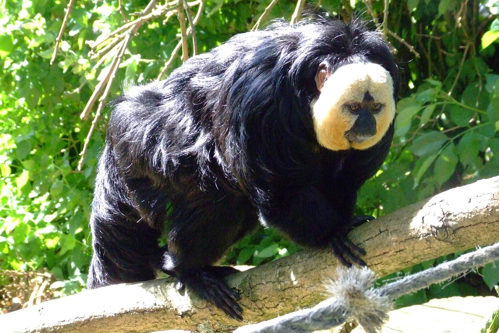 A male white-faced Saki at Marwell Wildlife, Hampshire, England.